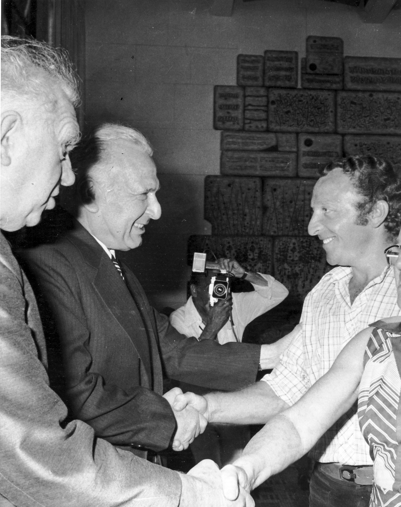 Gan-Shmuel sg4- 30, Events in Israel